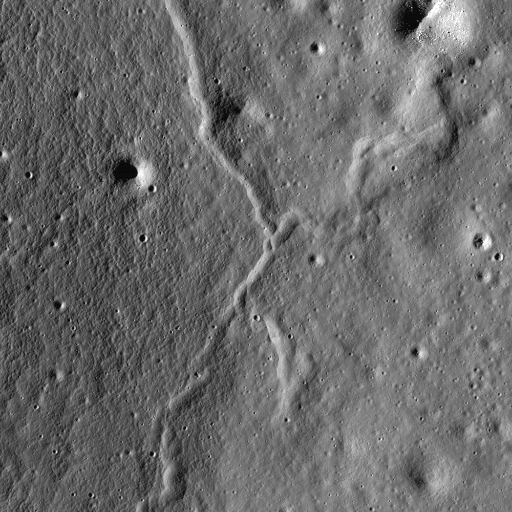 Triple junctions of wrinkle ridges at the western edge of Bolyai crater floor. Image width is 1270 m, LROC NAC image M134368363L. Sunlight is from left side [NASA/GSFC/Arizona State University].